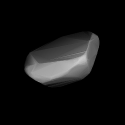 3D convex shape model of 979 Ilsewa, computed using light curve inversion techniques. J. Hanuš, J. Ďurech, M. Brož, B. D. Warner (June 2011). "A study of asteroid pole-latitude distribution based on an extended set of shape models derived by the lightcurve inversion method". Astronomy and Astrophysics 530: A134. ISSN 0004-6361. arXiv